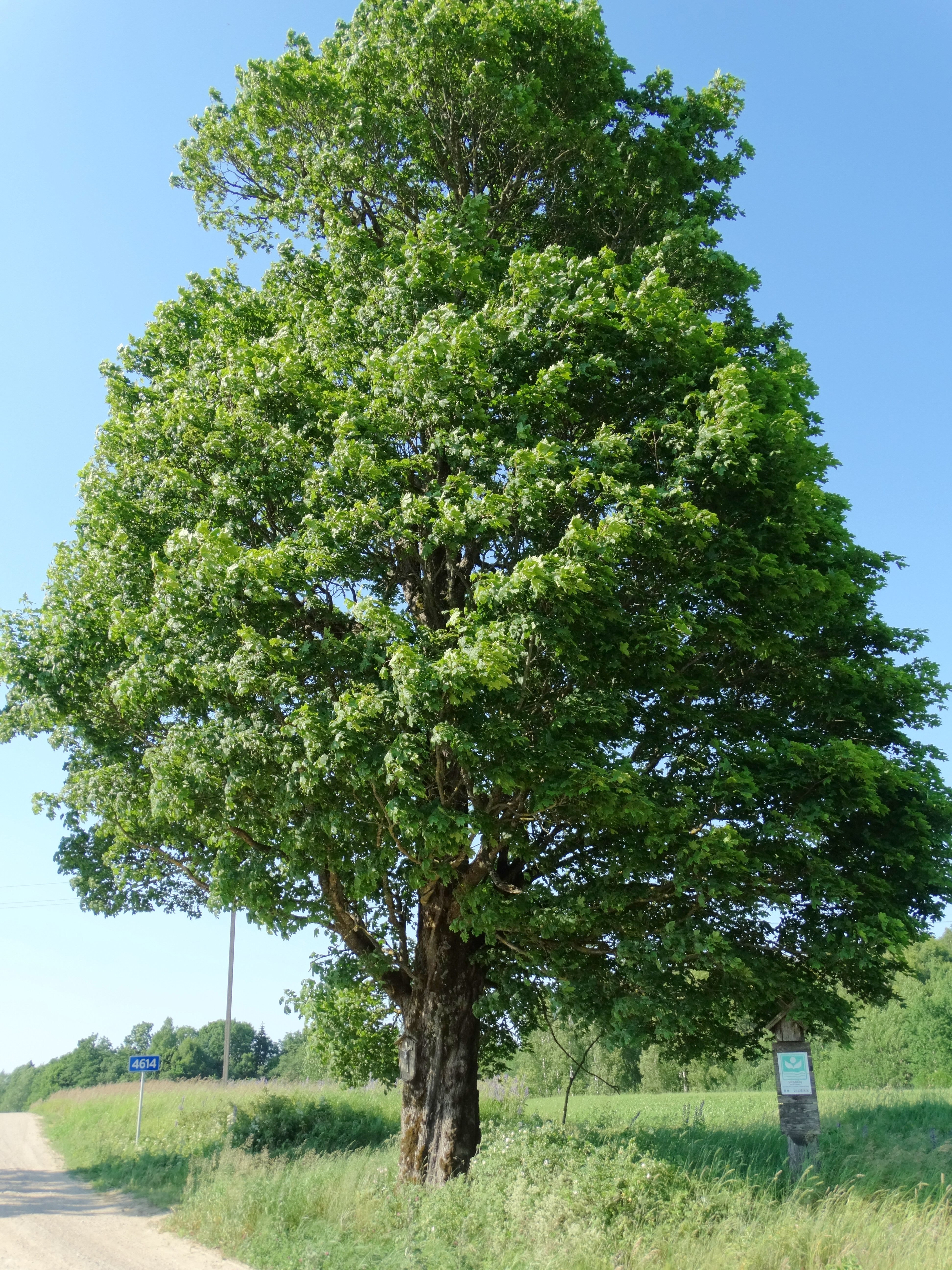 Vilkaičiai, Plungė District, Lithuania